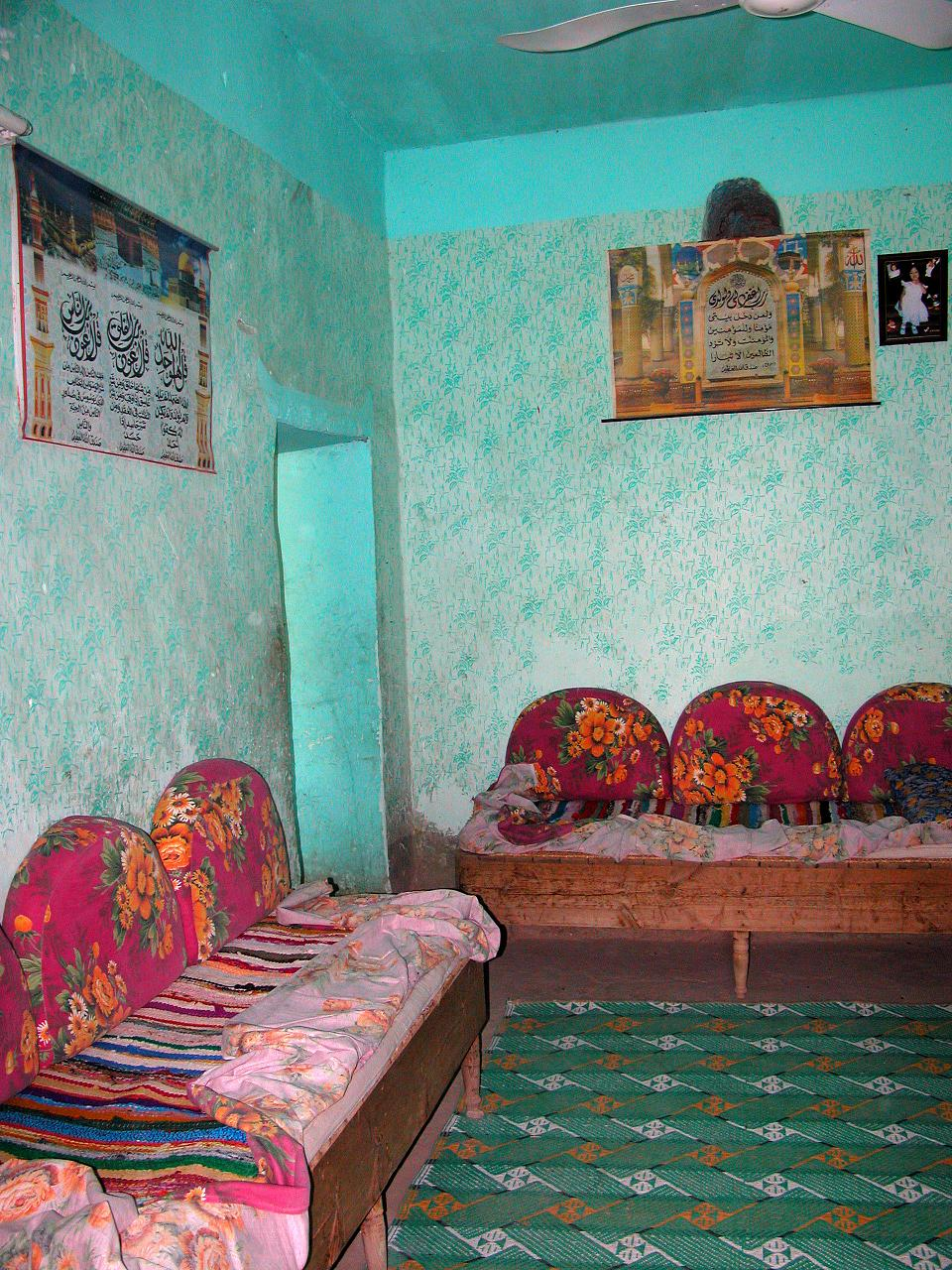 Sitting area in a persons house. Valley of the Kings, Egypt